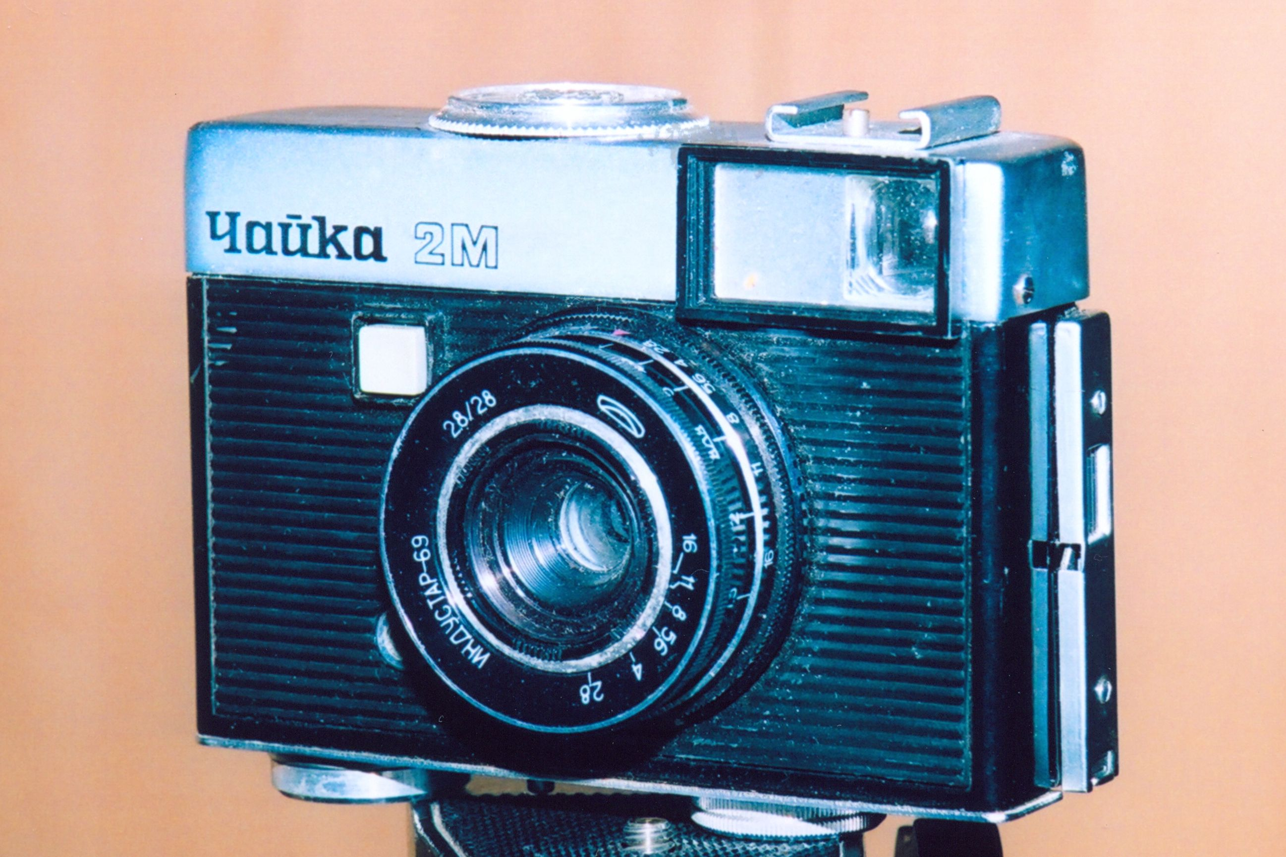 Фотоаппарат Чайка-2М